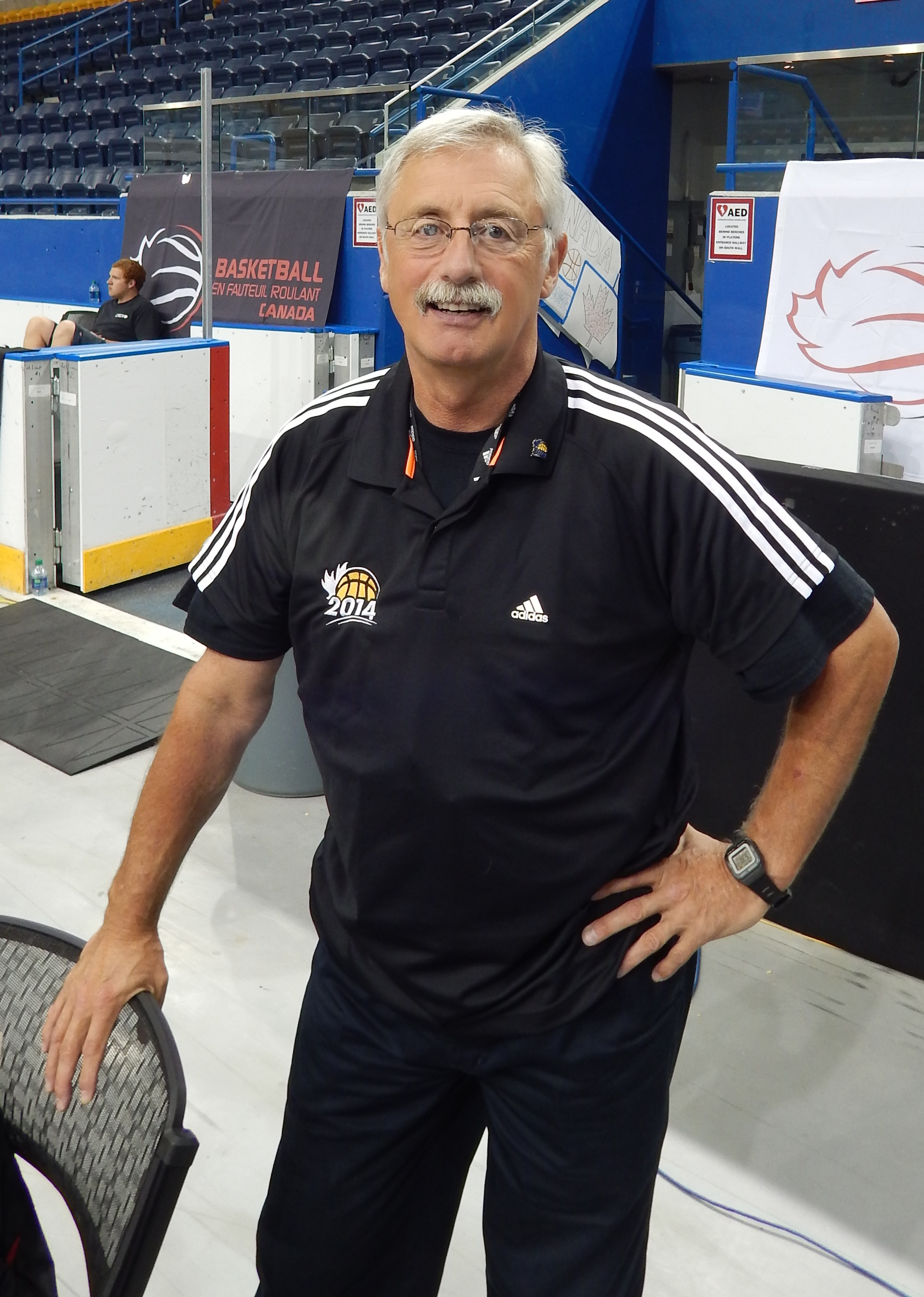 Tim Frick. Canadian wheelchair basketball coach.